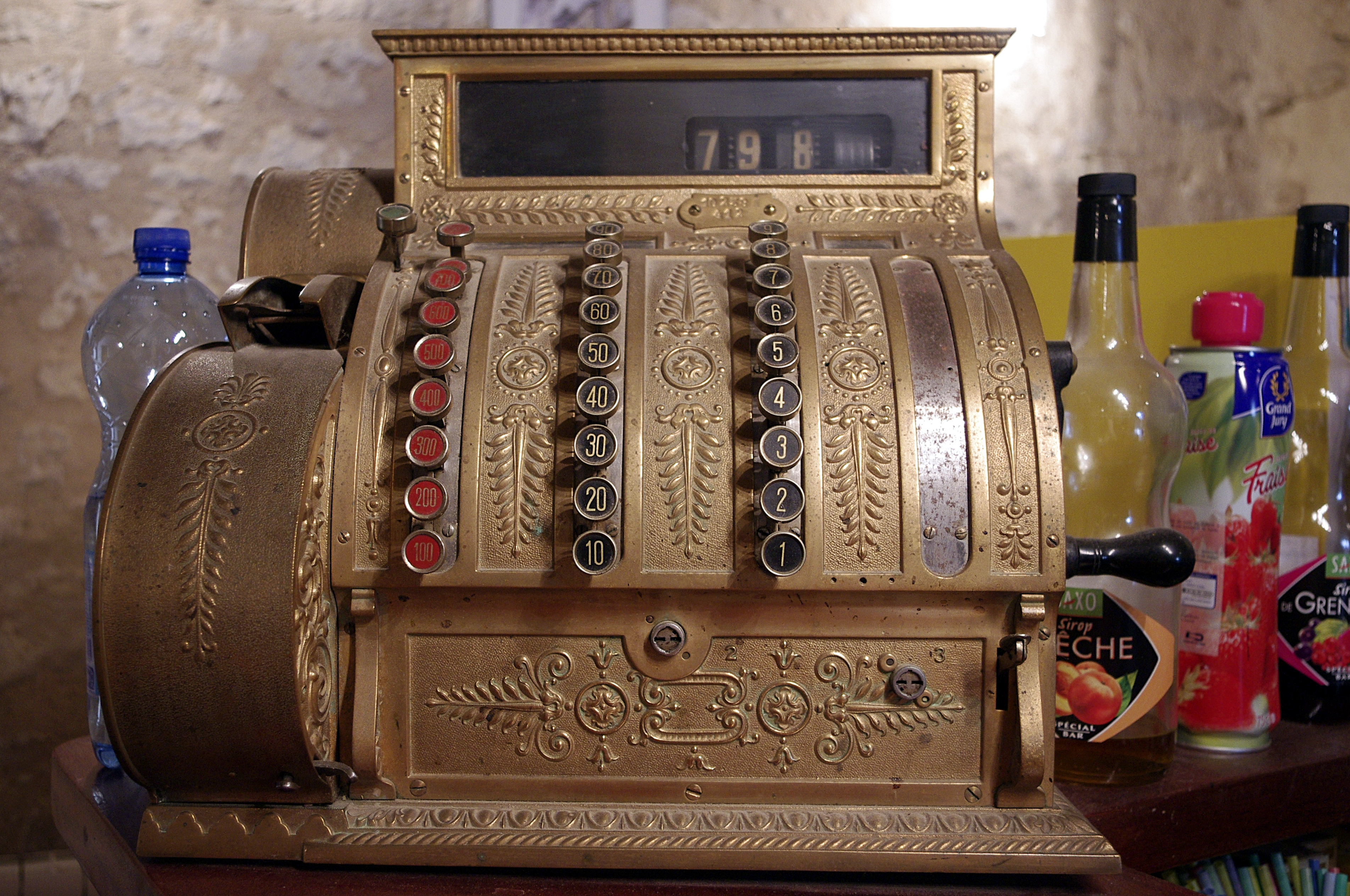 Old cash register seen in a French restaurant.